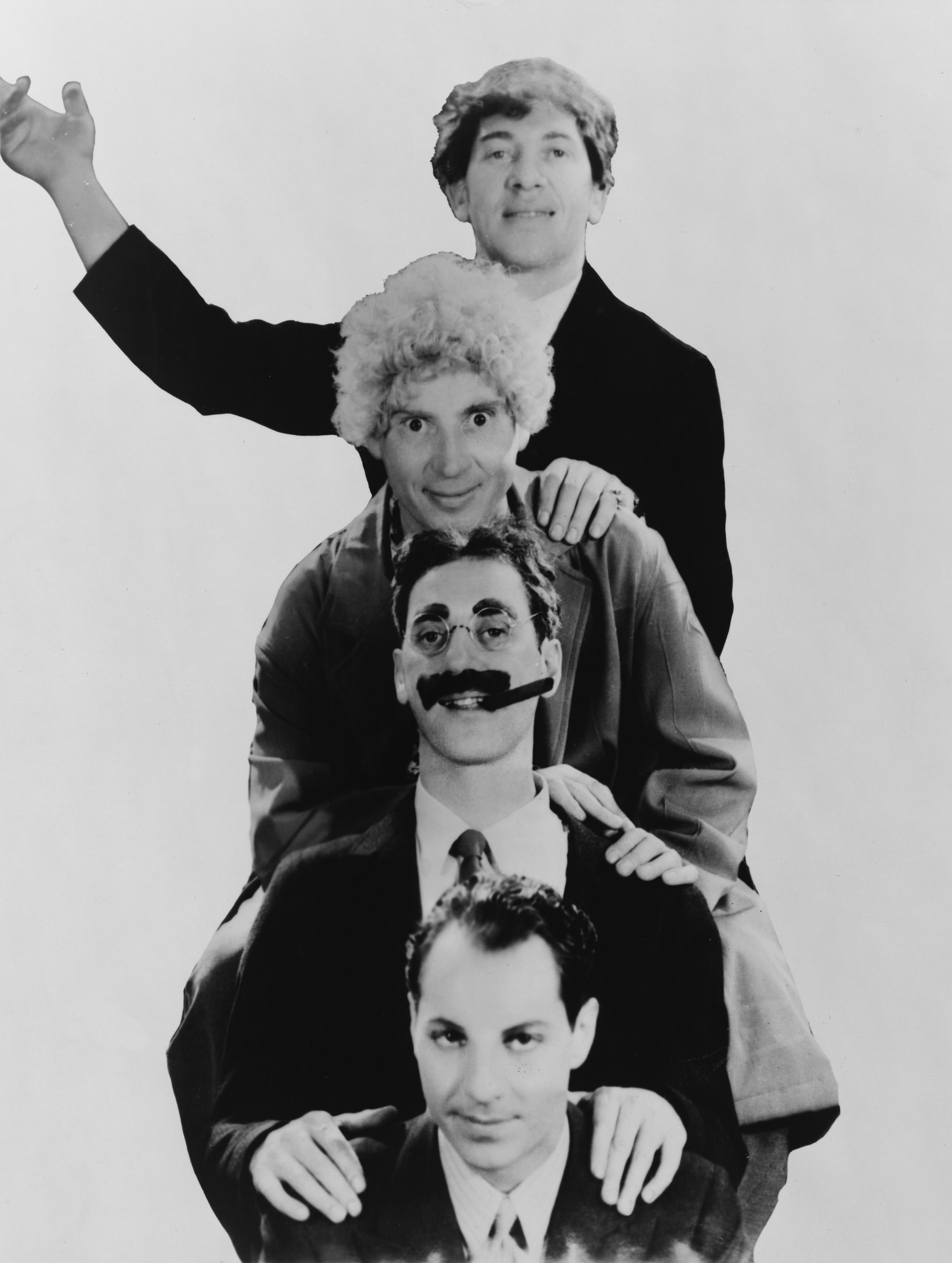 The Marx Brothers, head-and-shoulders portrait, facing front. Top to bottom: Chico, Harpo, Groucho and Zeppo.